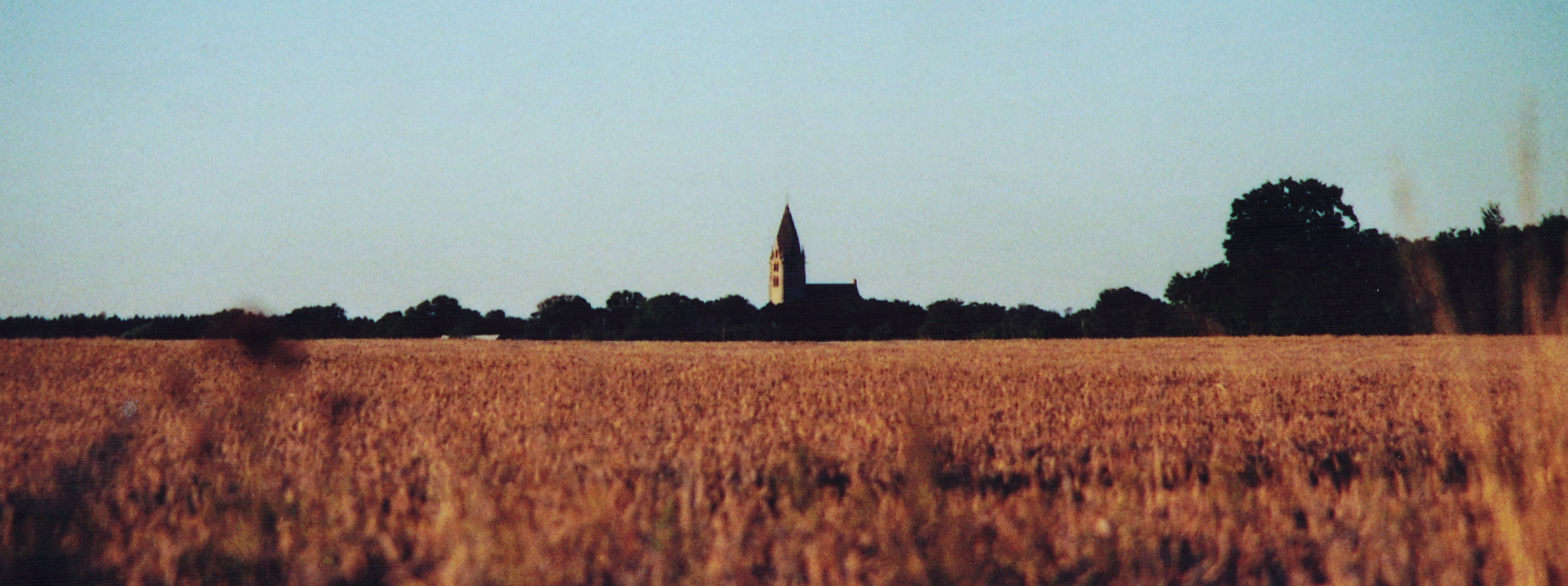 Church of Dalhem, Gotland, Sweden (view from far away)